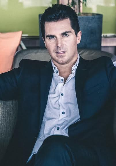 Headshot Photo